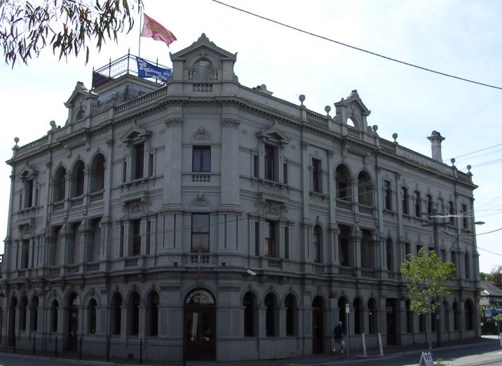 Auburn Hotel. Auburn, Victoria. Australia.